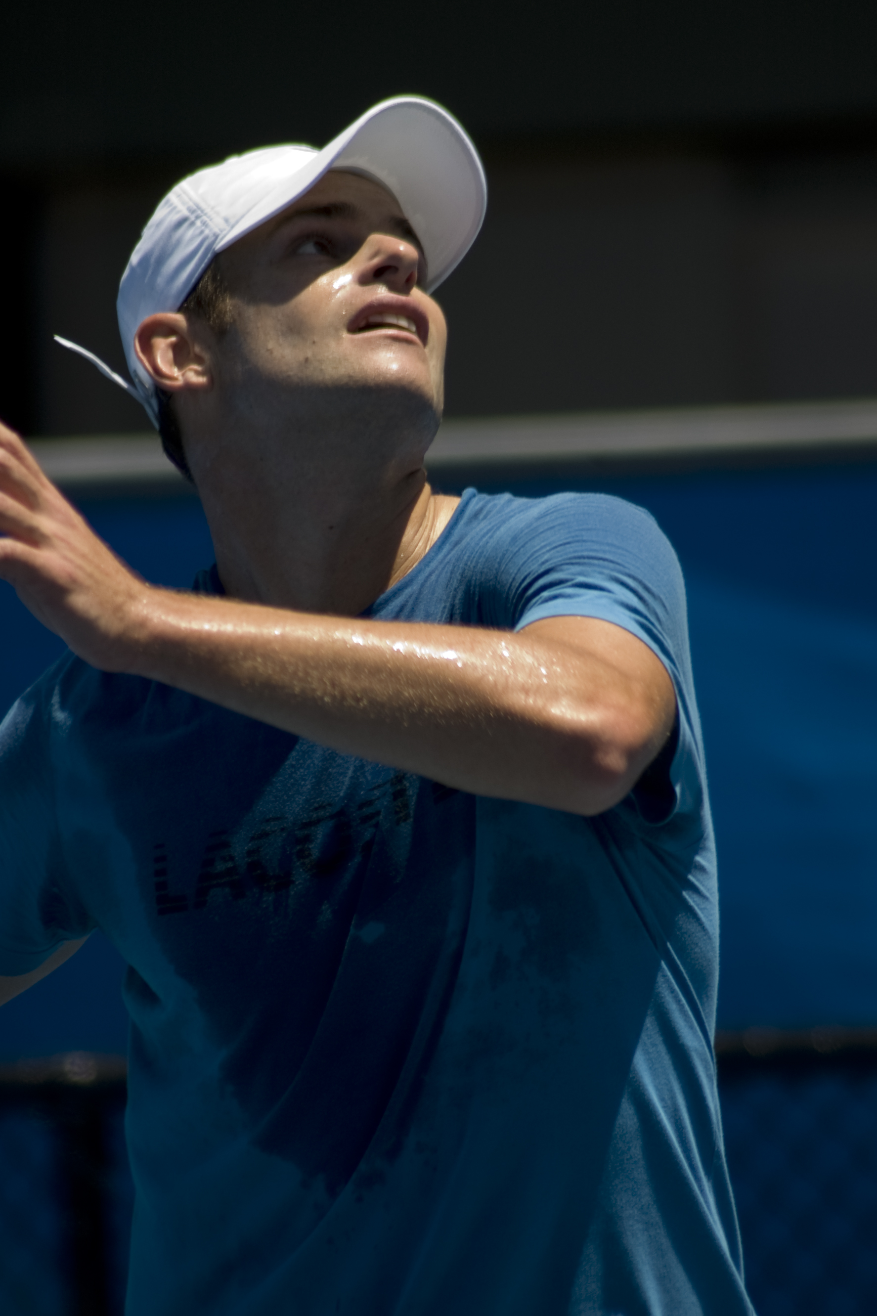 Taken at the Australian Open 2010